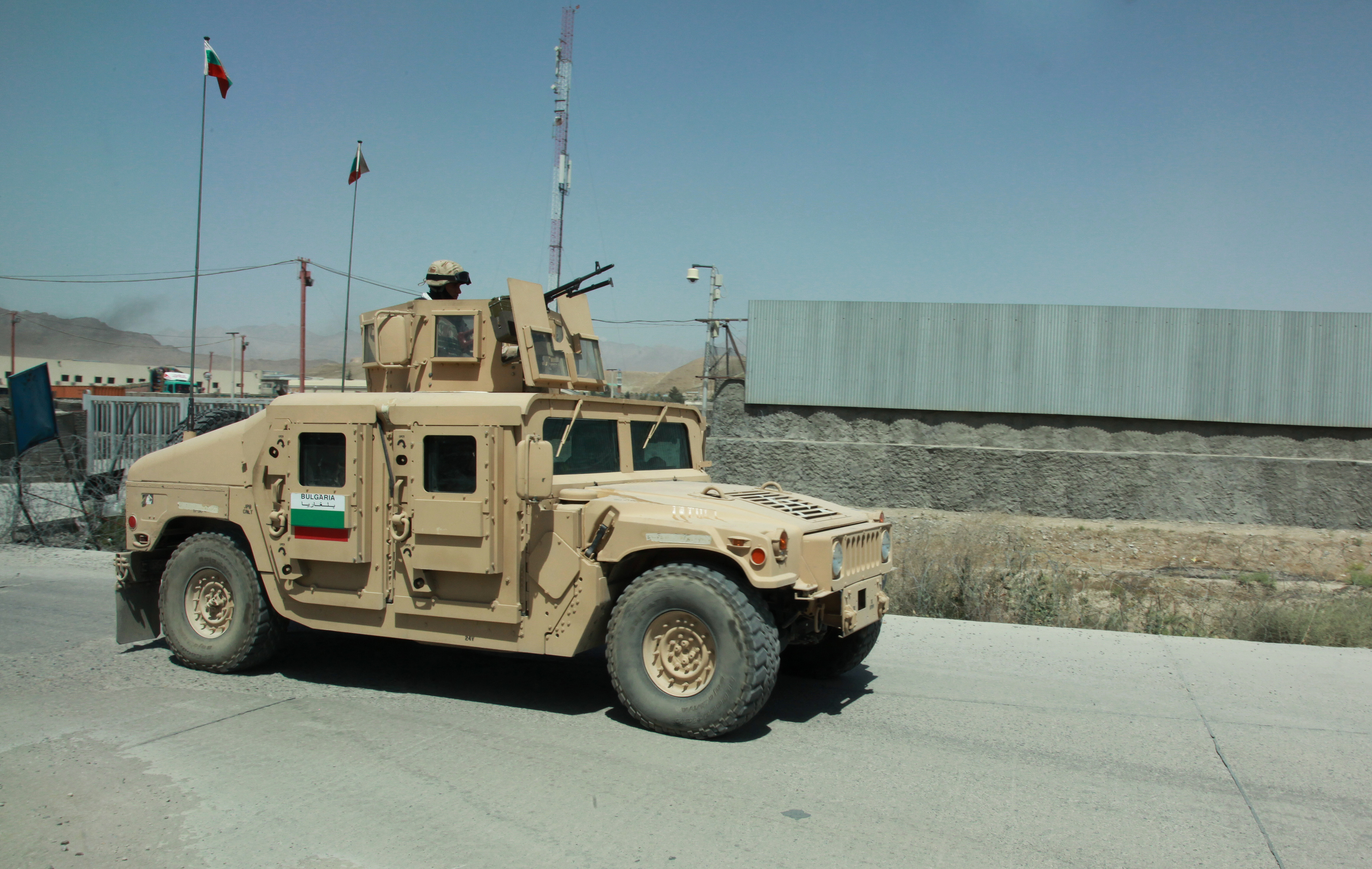 Coalition Forces from Bulgaria drive a U.S. made HMMWV in Kabul, Afghanistan, July 28, 2009. (U.S. Army photo by Sgt. Teddy Wade/Released)